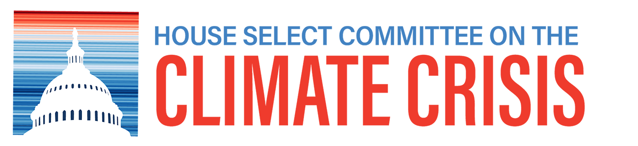 2019 logo for the committee, which adds warming stripes as the background for the US Capitol